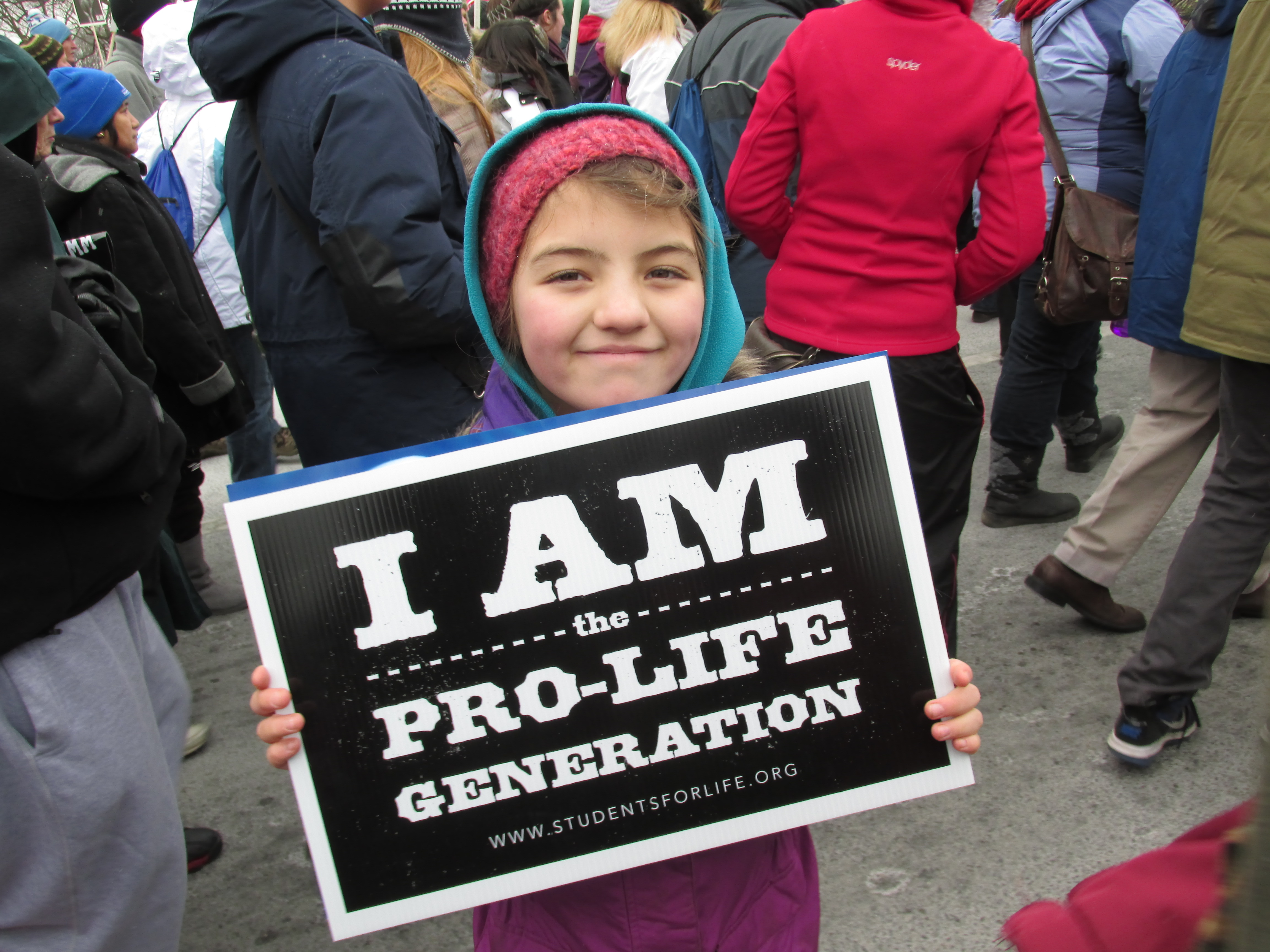 A young girl holds up a pro-life sign at the March for Life in Washinton, D.C. (2013)